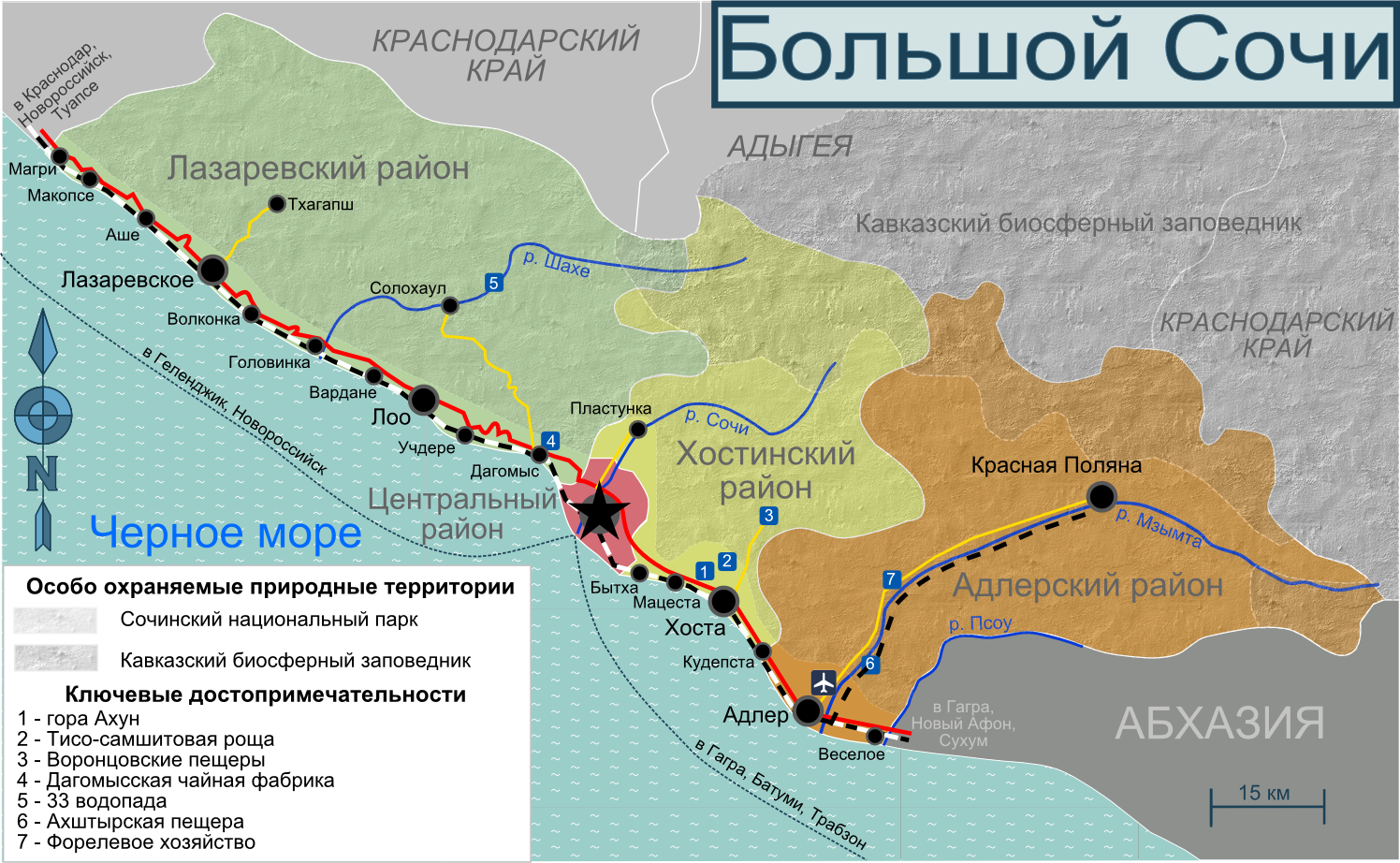 Travel map of Greater Sochi, Russia